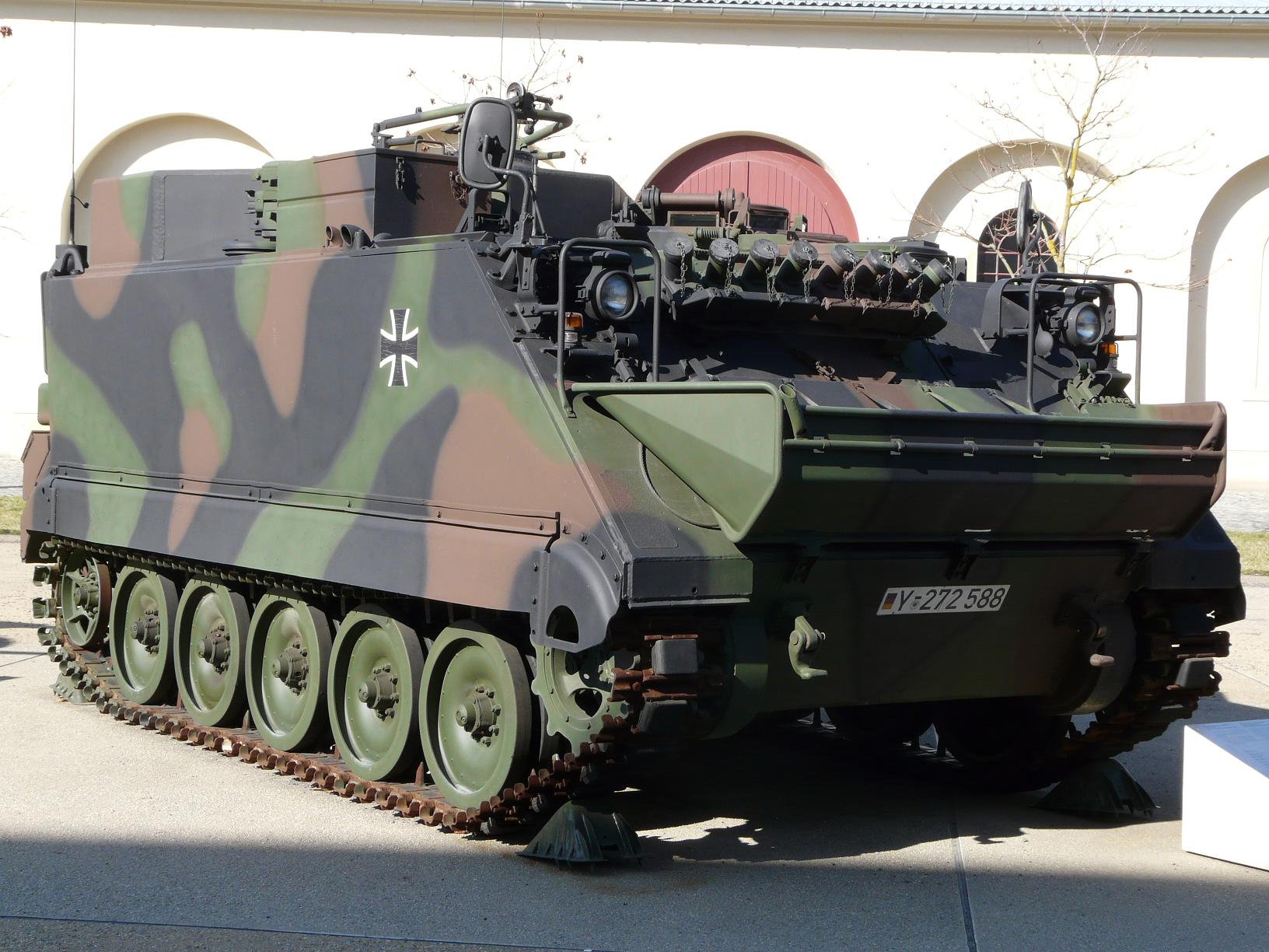 M113 A1 GE artillery amoured observation vehicle (modified by Bundeswehr) in the Bundeswehr Military History Museum Dresden